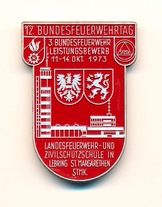 Firebrigade Austria and Styria